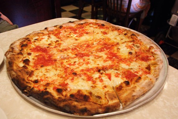 New York Style Pizza